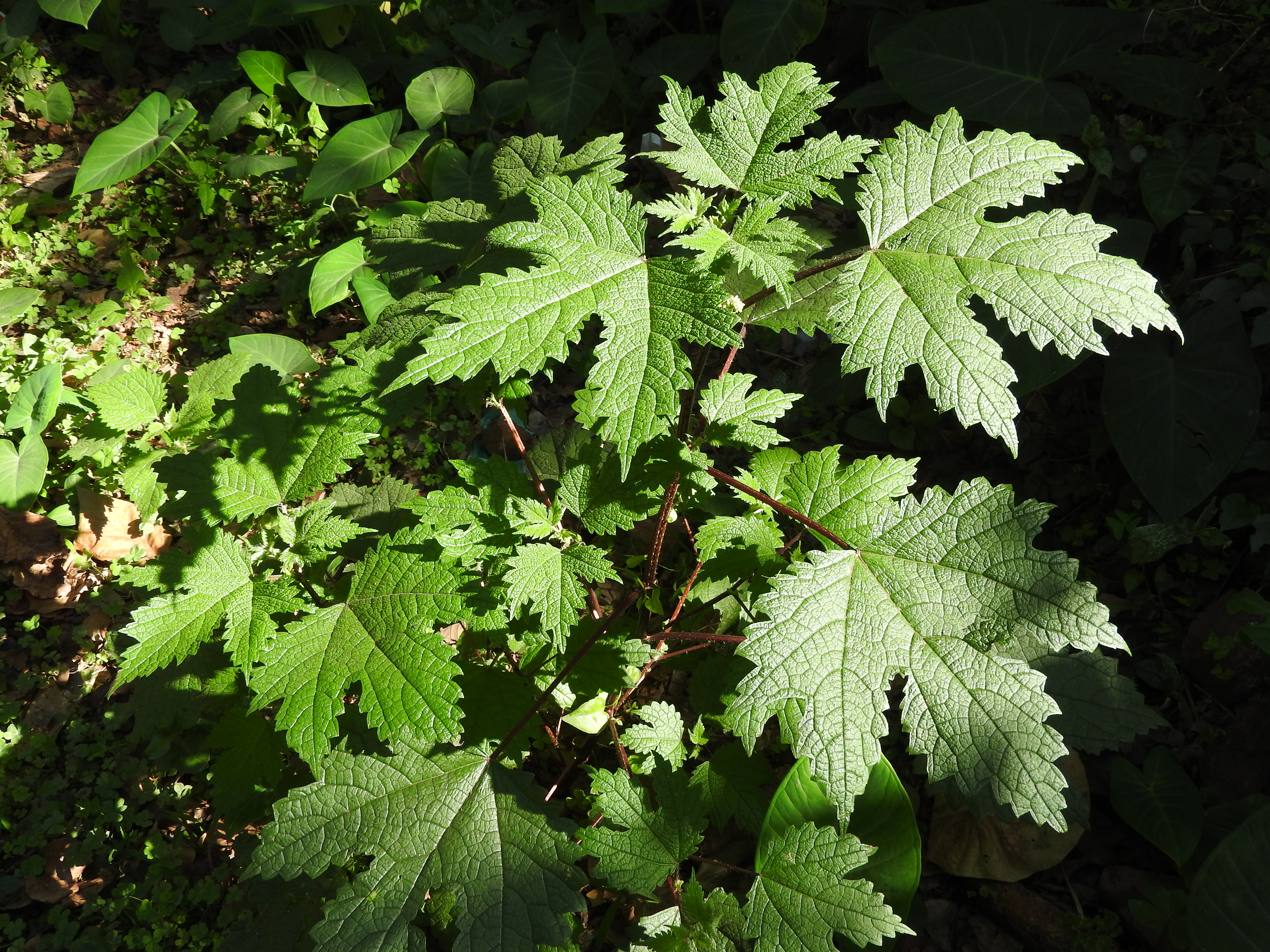 Urticaceae-nilghiri nettle;shrub.